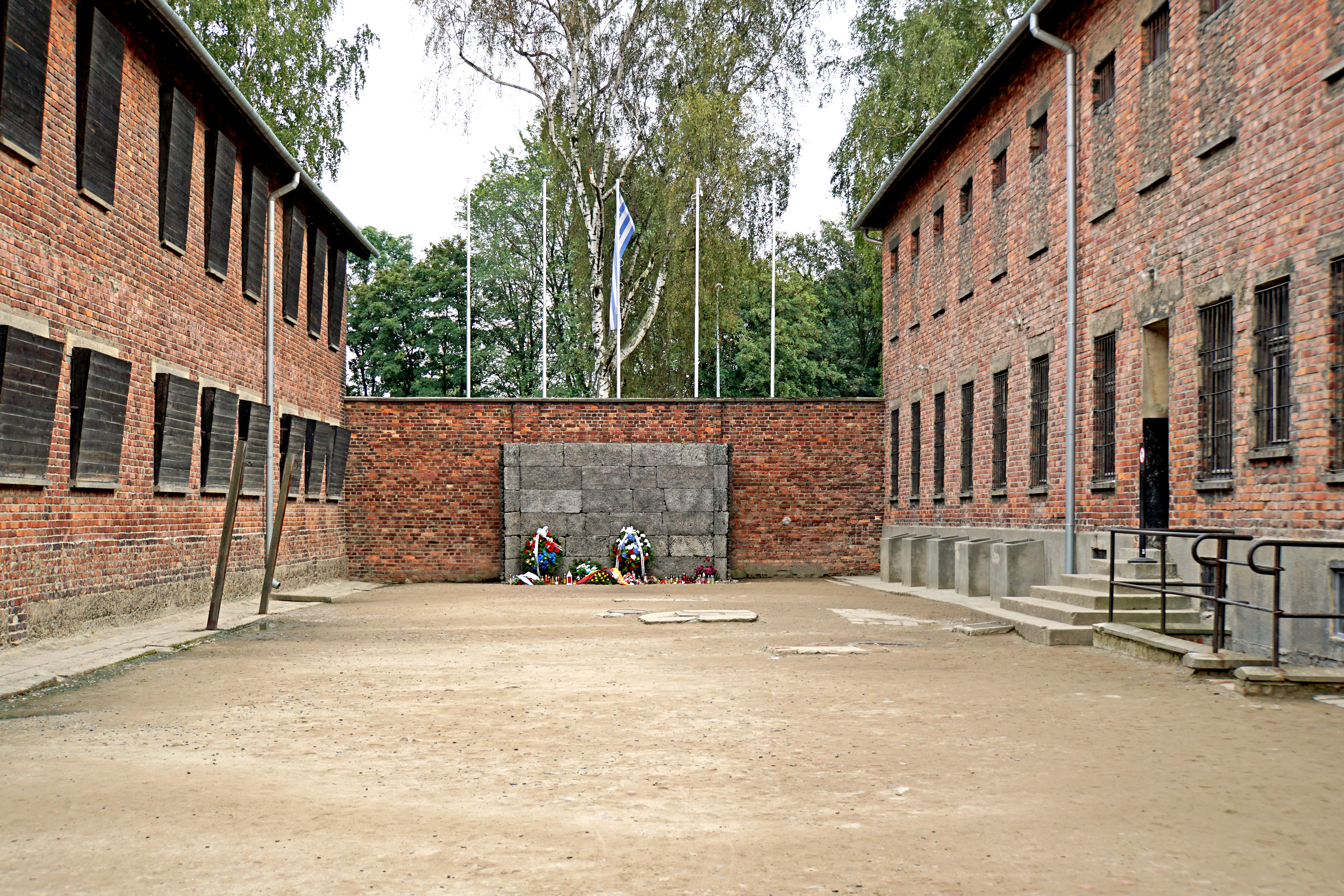 PLEASE, NO invitations or self promotions, THEY WILL BE DELETED. My photos are FREE to use, just give me credit and it would be nice if you let me know, thanks. Located in the yard between block 10 and block 11 is the "Death Wall". The condemned were led to the wall for execution by SS men who shot several thousand people. The wall was dismantled in 1944, while the camp was still in existence. This did not mean the end of executions, however. Prisoners were also subjected to other forms of punishment in the yard, including flogging and "the post." The “post” was an especially painful punishment. The victim’s hands were tied behind his back and he was hung from a post so that his feet could not touch the ground. The punishment was usually inflicted for several hours, an hour at a time. The prisoner lost consciousness because of the intense pain. The punishment usually caused the rupture of the tendons in the shoulder, leaving the victim unable to move his arms. This put him at risk of being sent to the gas chamber as unfit for work. To the left is block 10 where medical experiments were done on sterilization of Jewish women. The windows of block 10 are covered with black-painted wooden boards to prevent anyone from seeing what was happening inside, and the women could not see the activity at the wall. The boards are angled out a few inches to let in a little light through the crack at the top.